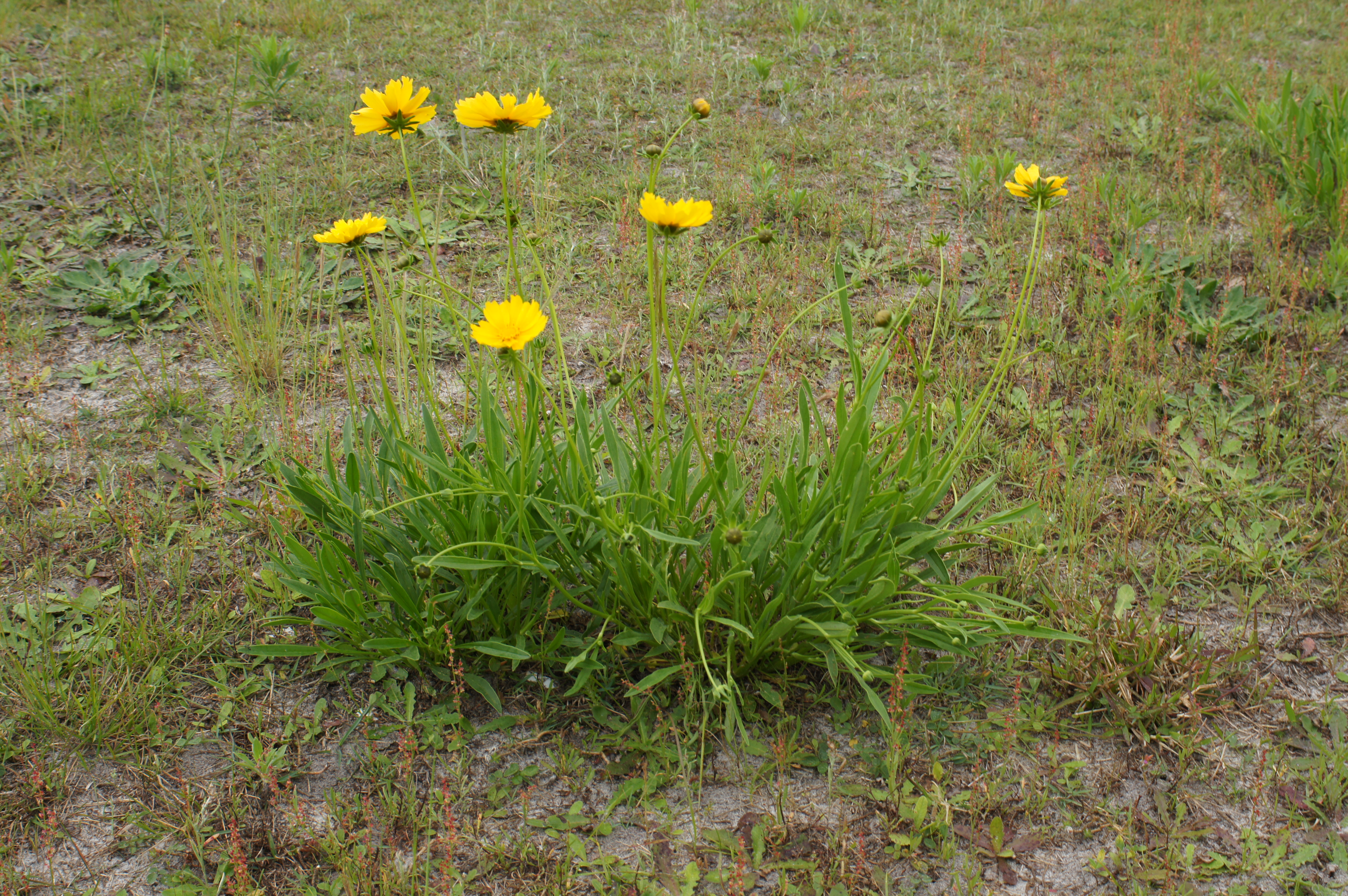 Introduced,warm-season, perennial, sparsely to moderately hirsute herb forming clumps up to 1 m tall. Lower leaves are radical, lanceolate to spathulate, with long petiole-like bases, usually entire but occasionally with 2 basal lobes or 1-pinnate; upper cauline leaves are sessile and entire. Heads are solitary or in loose cymes. Ray florets are bright yellow, toothed and ligulate. Disc florets are numerous, yellow and tubular. An invasive garden escape of roadsides, railway lines and disturbed areas.